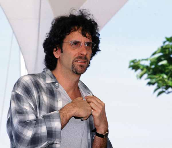 Coen Joel at Cannes in 2001. My own picture. Created by Rita Molnár 2001.